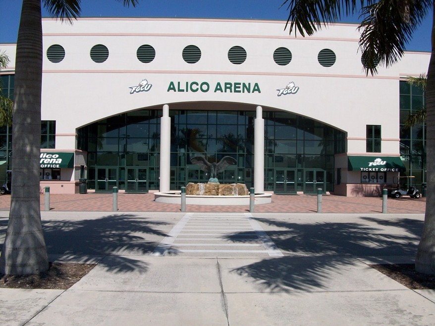 Alico Arena Estero, Florida